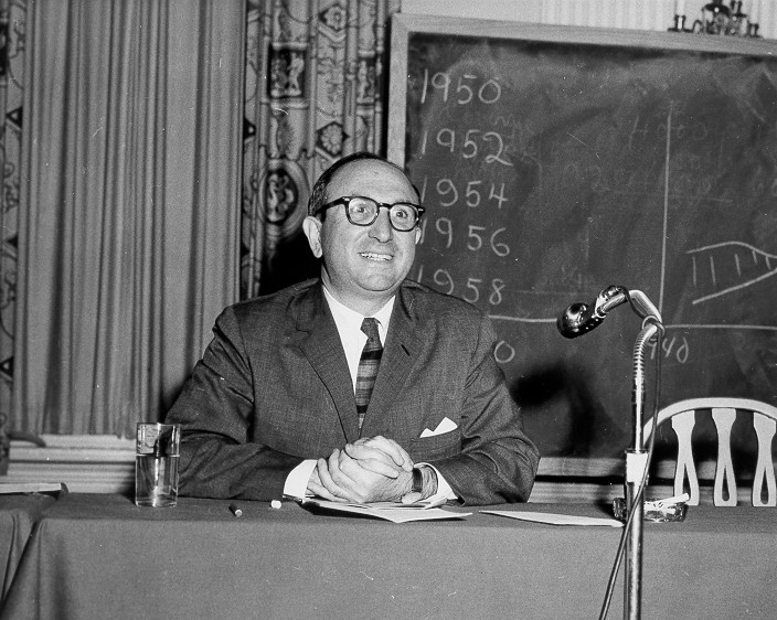 Wilbur Cohen participating in forum in 1961.